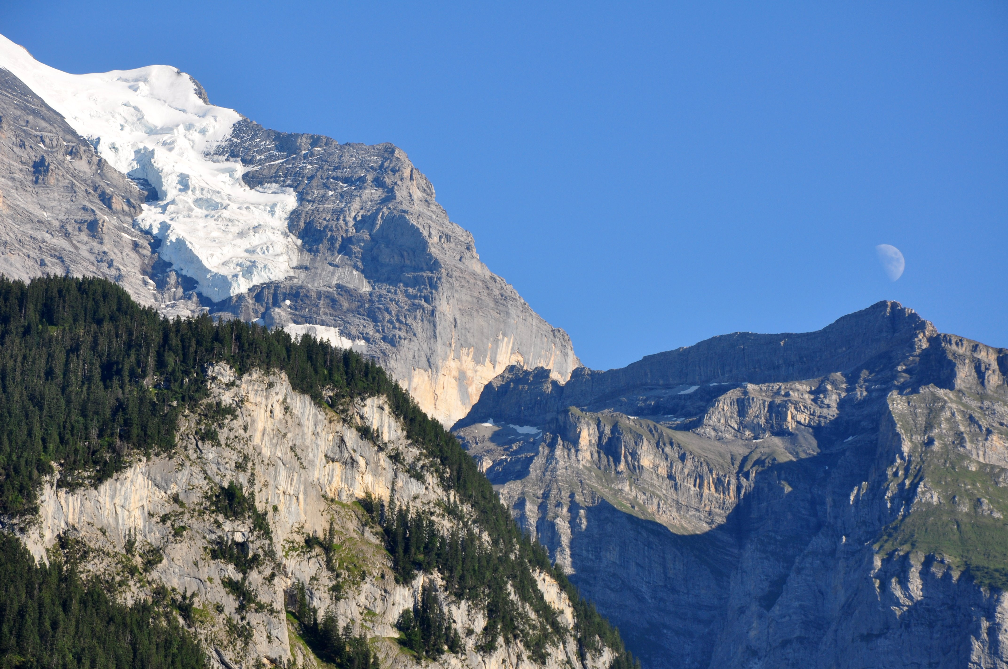 Switzerland, Canton of Bern, Moon having a rest on Schwarzmönch